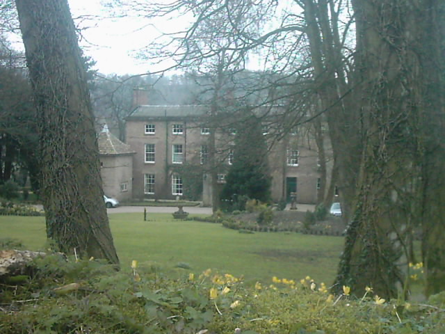 Hopton Hall, Hopton, Derbyshire. Photo Taken: 19/04/08.